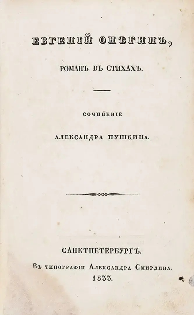 Eugene Onegin first book edition 1833